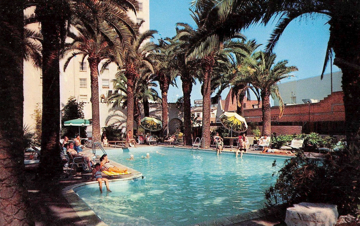 Postcard photo of the swimming pool of the Hollywood Plaza Hotel, Los Angeles.